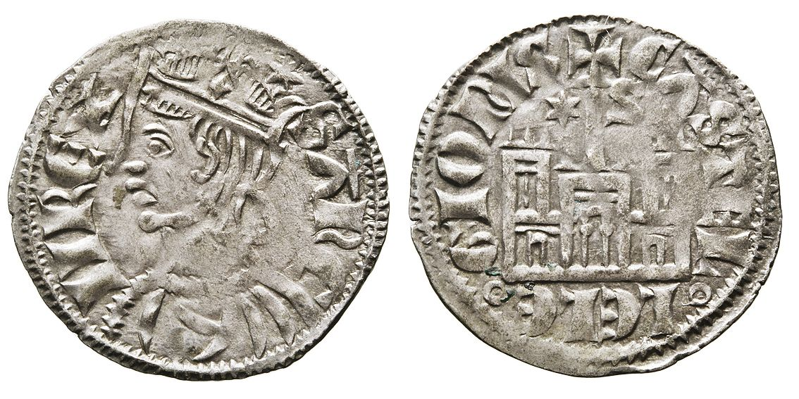 Castilian cornado, billon coin from the reign of Sancho IV of Castile (1284-1295). Minted in Seville.